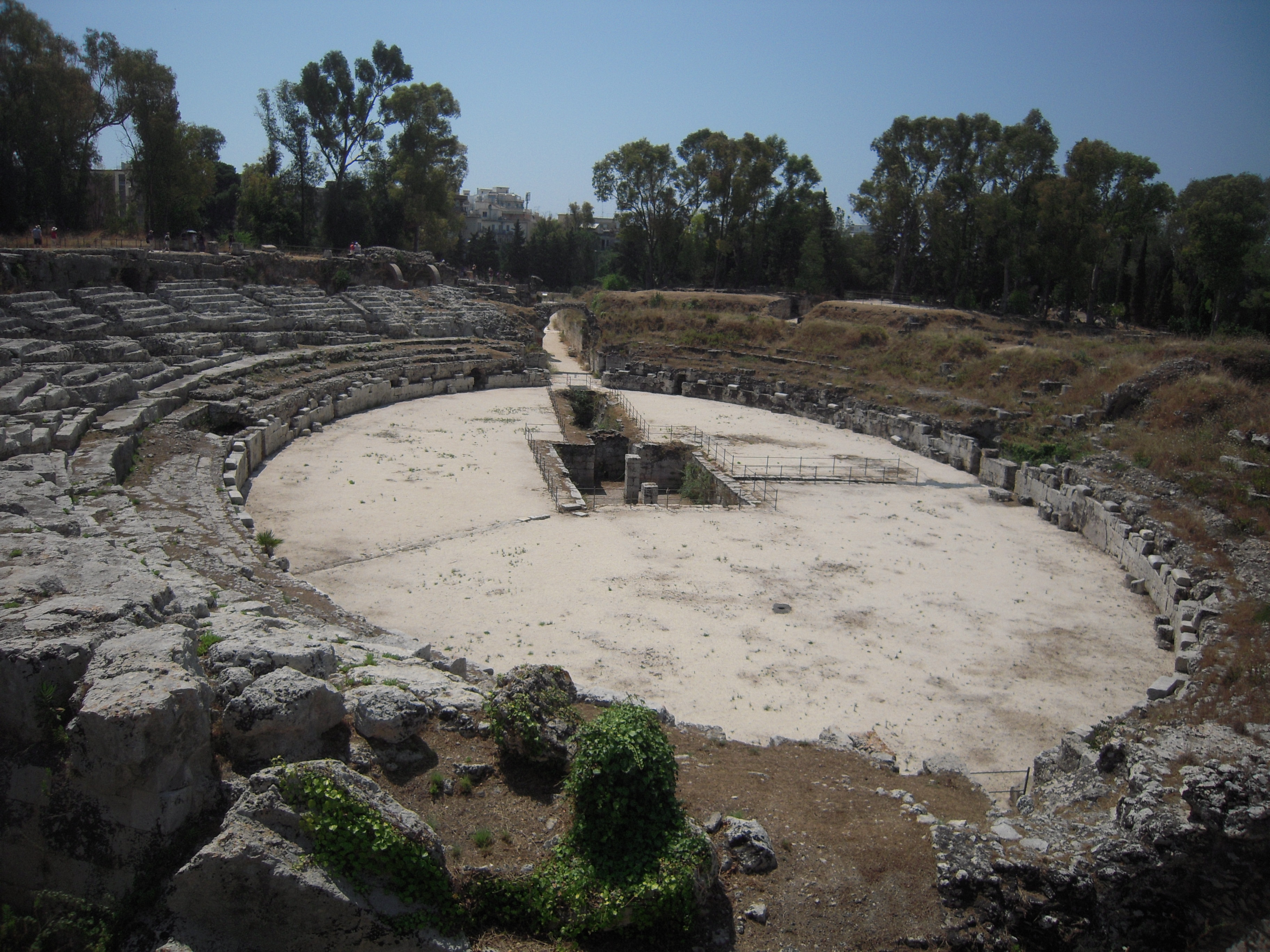 AMPHITHEATRE, roman Syracuse